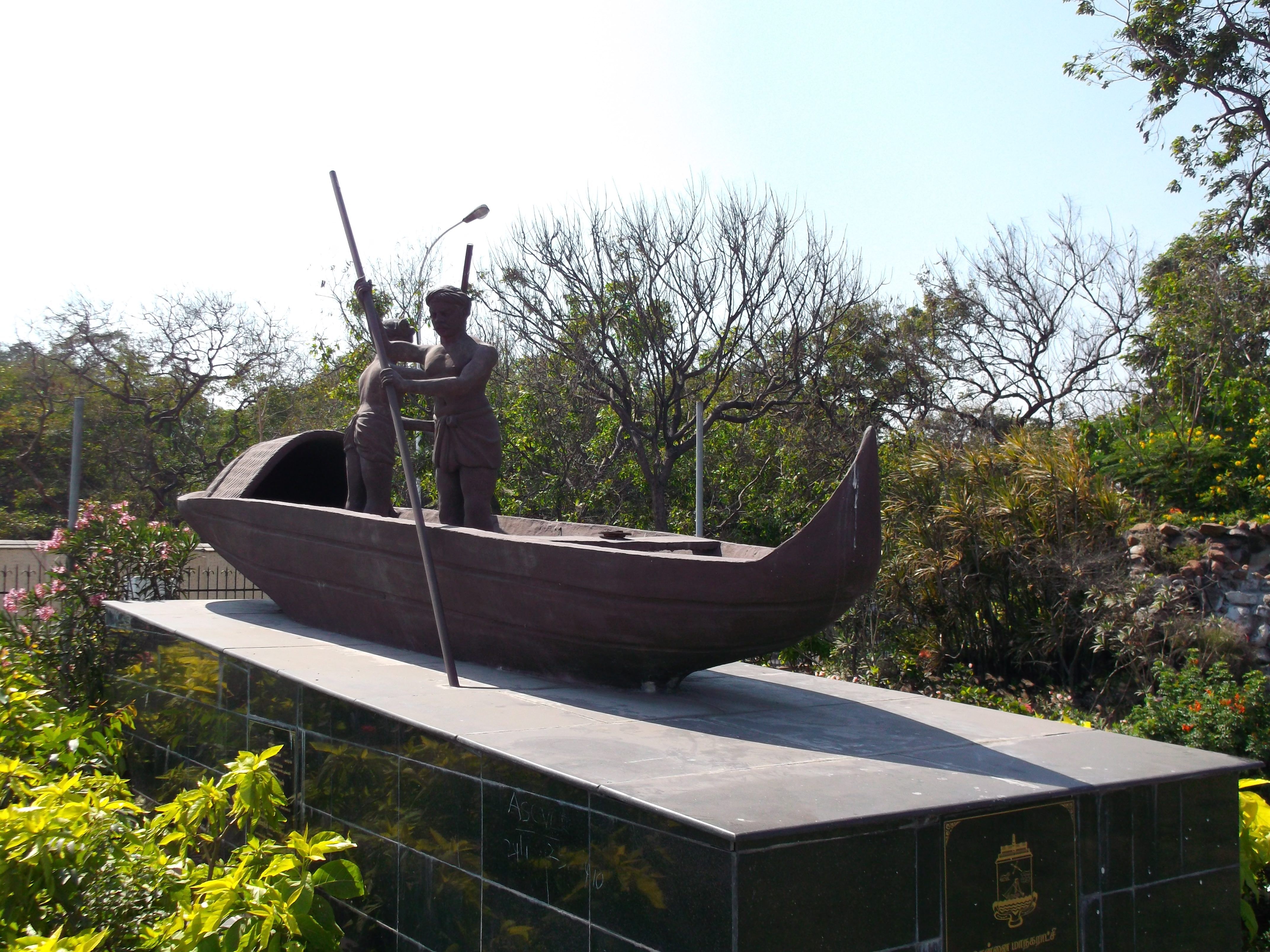 Fishermen Statue at Annie Besant Park, Triplicane, Chennai, taken on 2-Feb-2013, at 3:00 pm